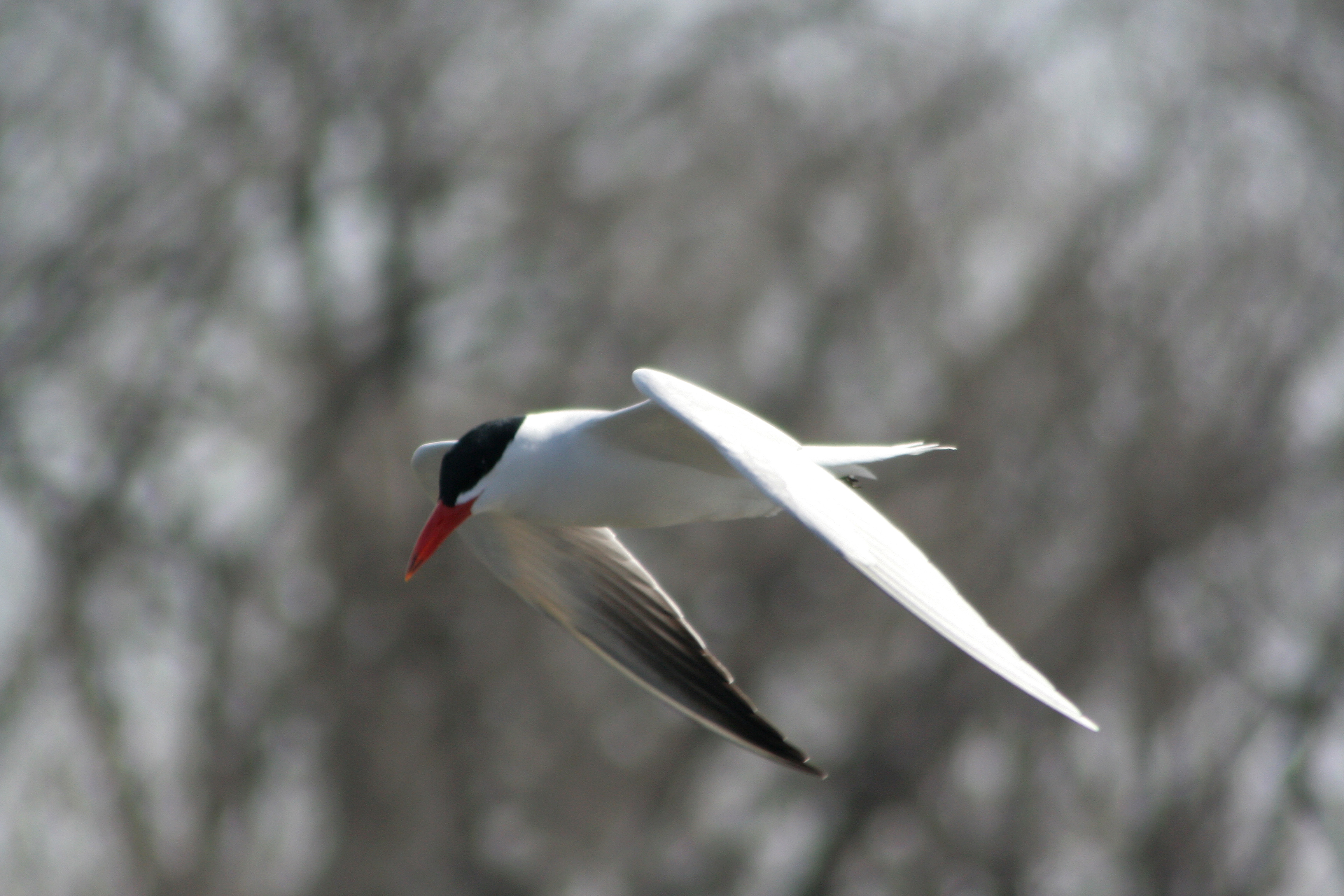 Caspian Tern, Mays Point, Seneca Falls, New York.